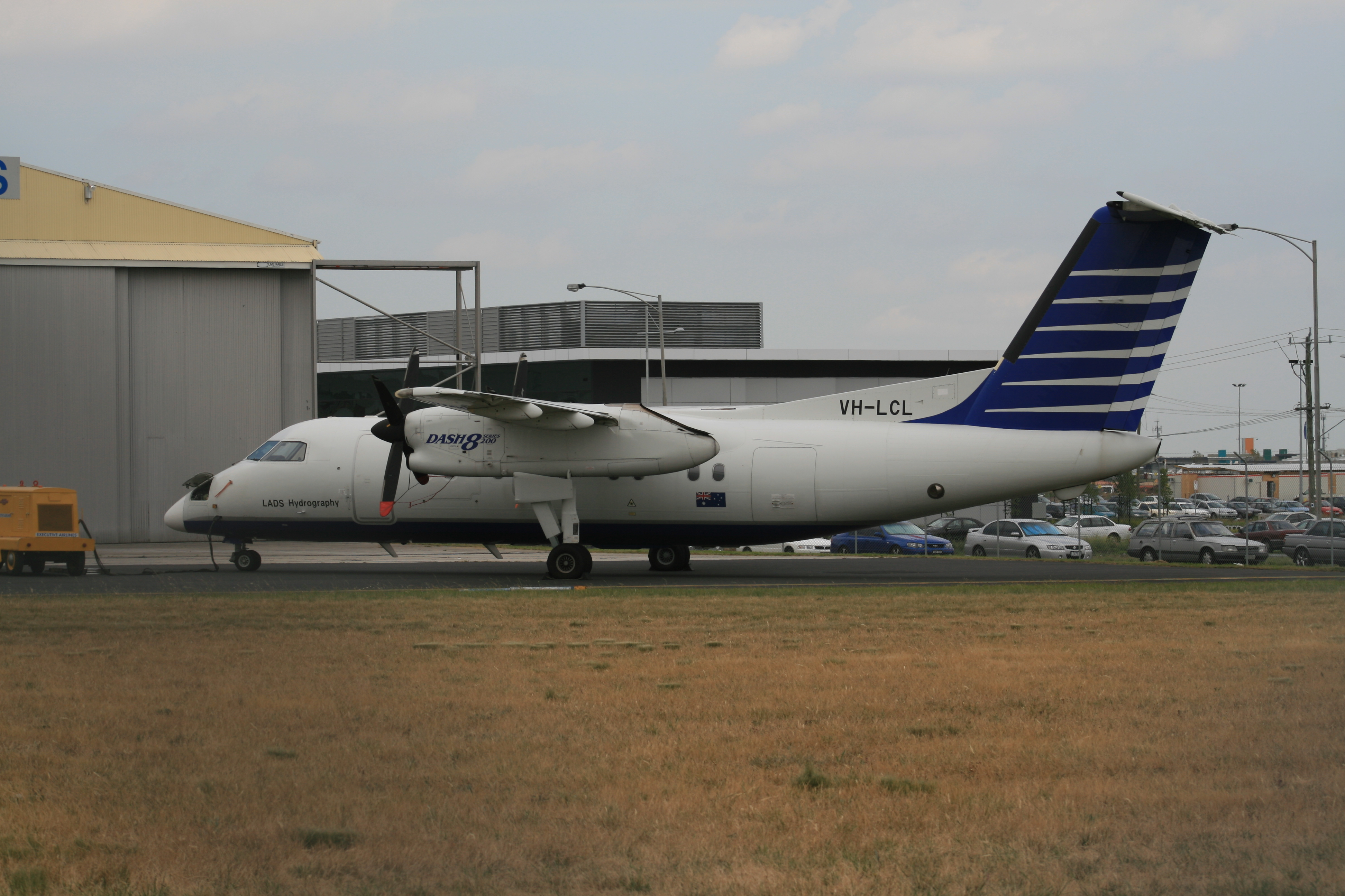 This de Havilland Canada DHC-8 is equipped with the Australian-developed Laser Airborne Depth Sounder. Digital photo of VH-LCL taken at Essendon Airport by YSSYguy on 5 December 2007 & uploaded for use in the LADS article.